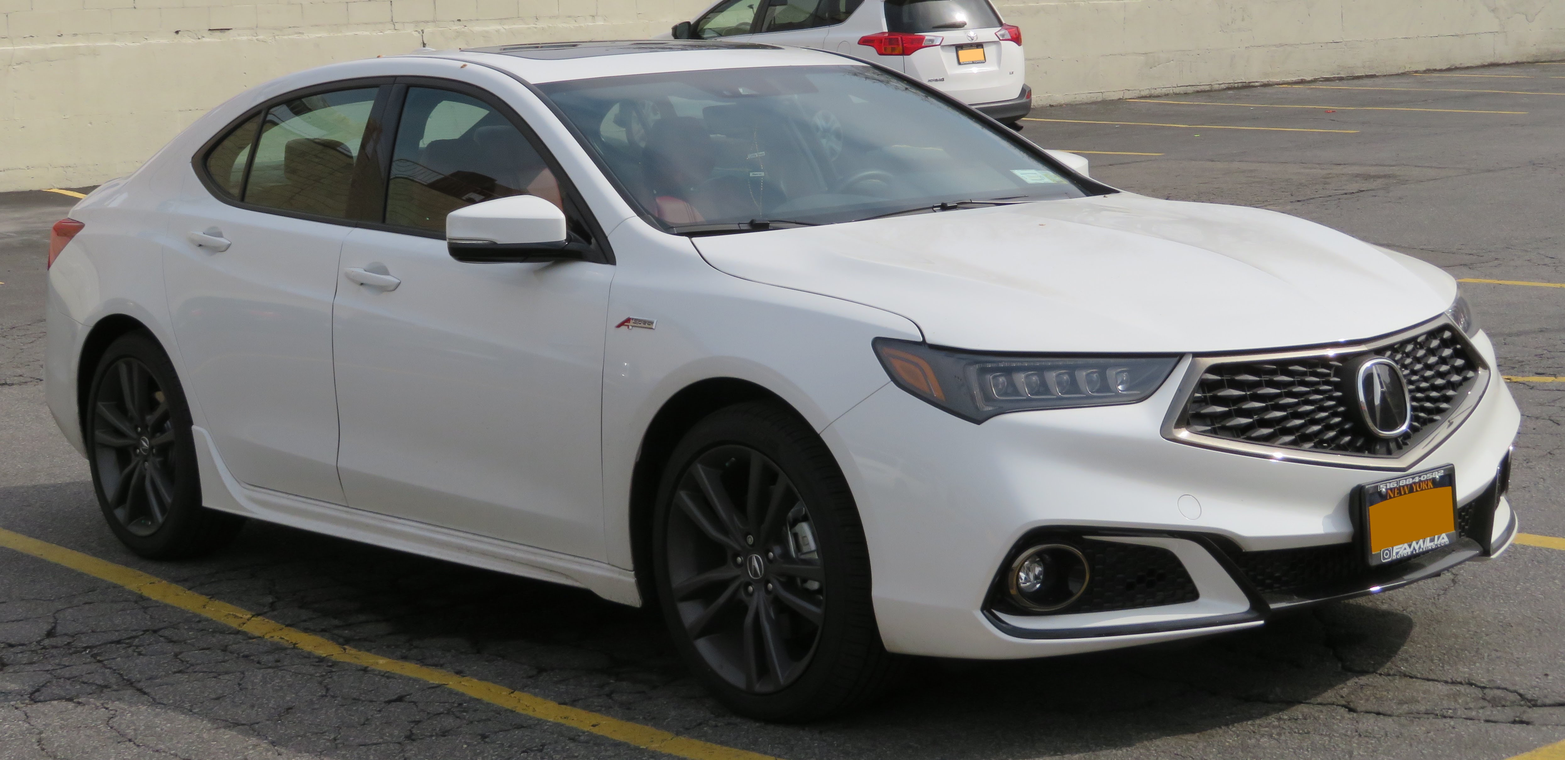 In Queens, New York